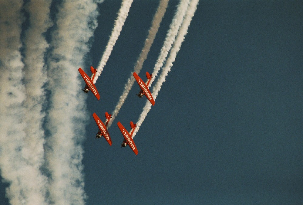 WWII-era North American T-6 Texans (trainers) T. Canaan, 2005 From the Experimental Aircraft Assoc. EAA Airventure 2005 Oshkosh, WI